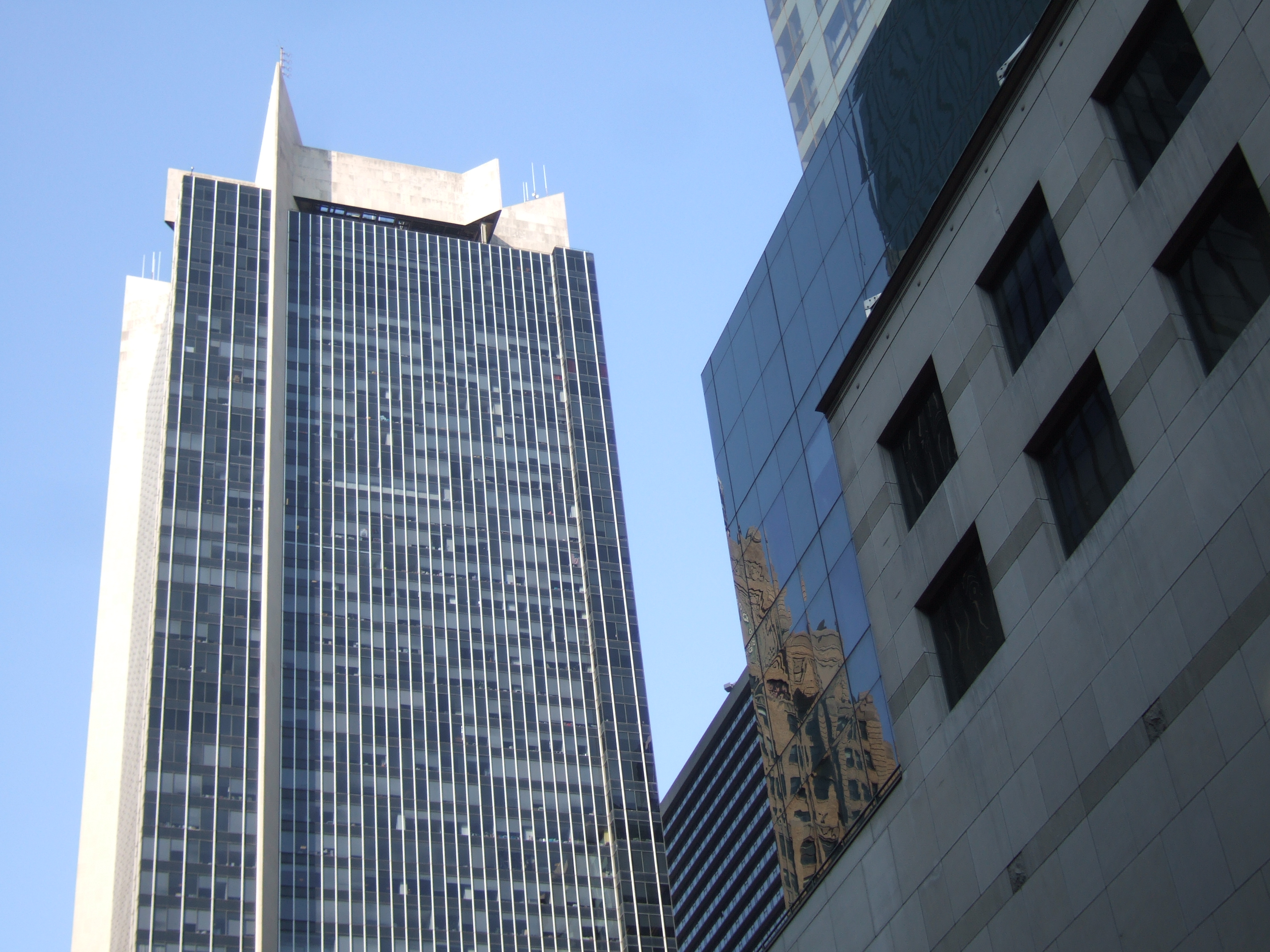 One Astor Plaza Taken November 2006.